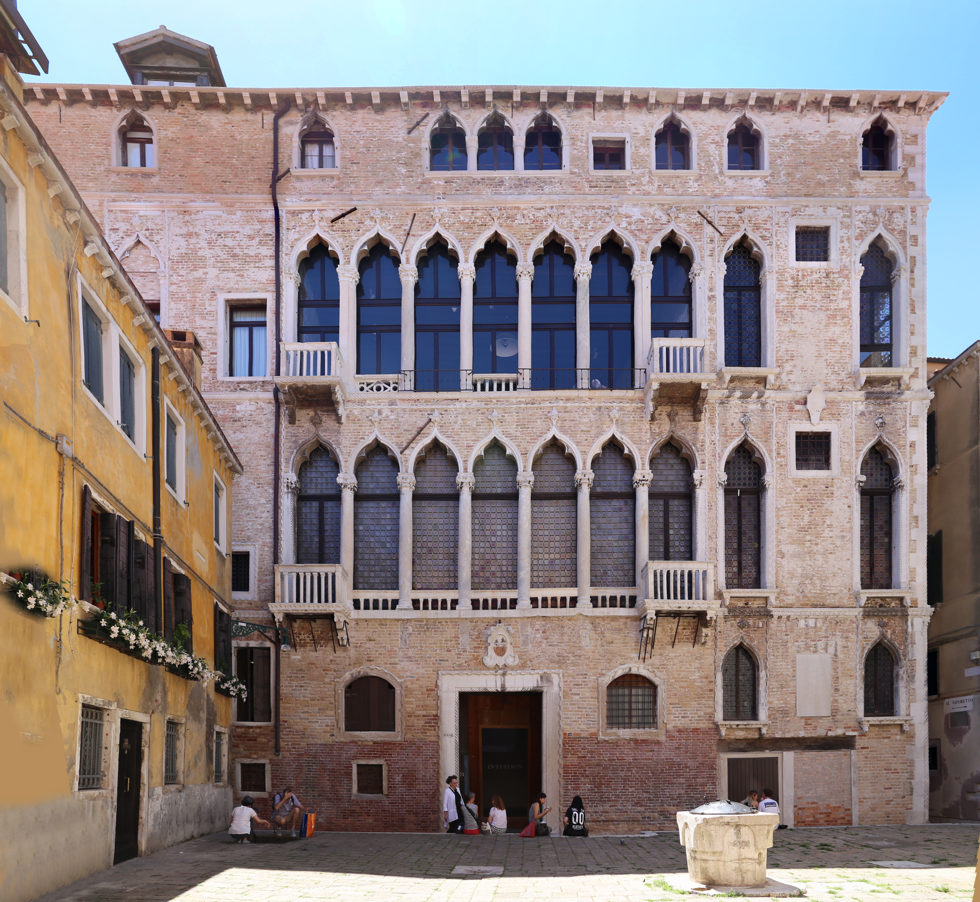 Palazzo Fortuny (Venice)